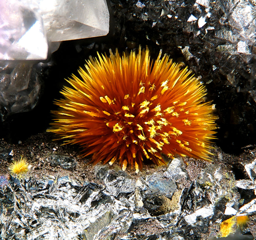 Karibibite Locality: Oumlil Mine (incl. Oumlil East Mine), Oumlil, Bou Azzer District, Tazenakht, Ouarzazate Province, Souss-Massa-Draâ Region, Morocco Picture width 2 mm. Collection and photograph Christian Rewitzer